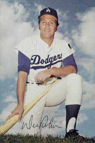 A baseball card of Wes Parker from the 1971 Ticketron Los Angeles Dodgers set.